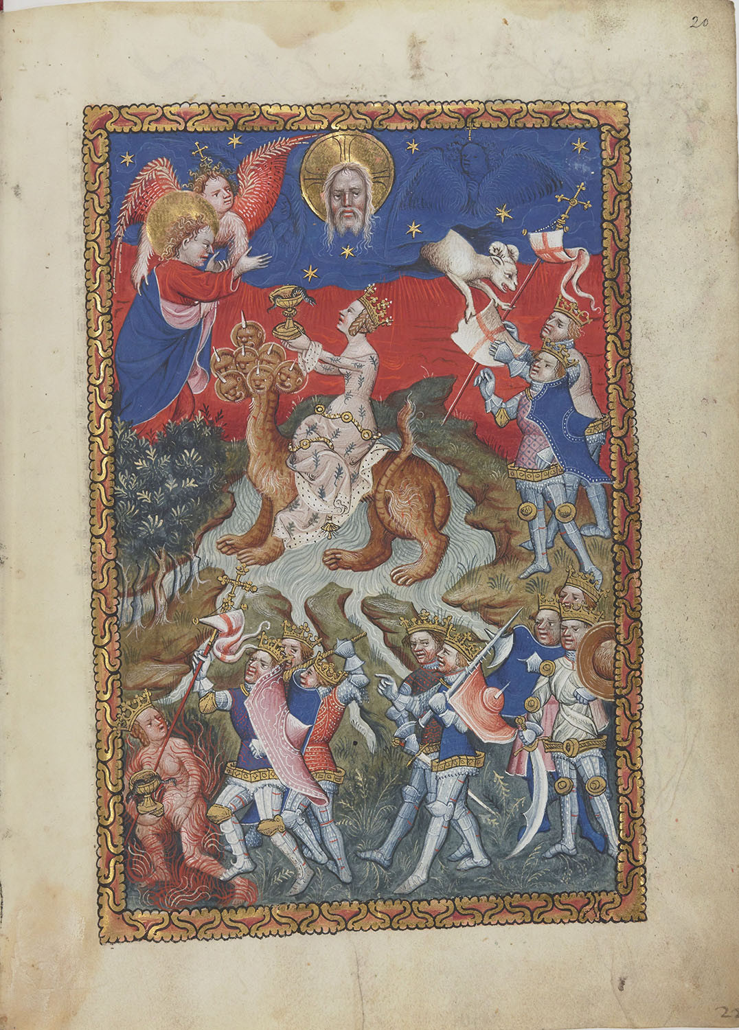 Apocalypse flamande - BNF Néerl3